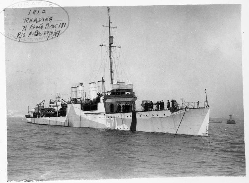 HMS Reading (G71) Underway.